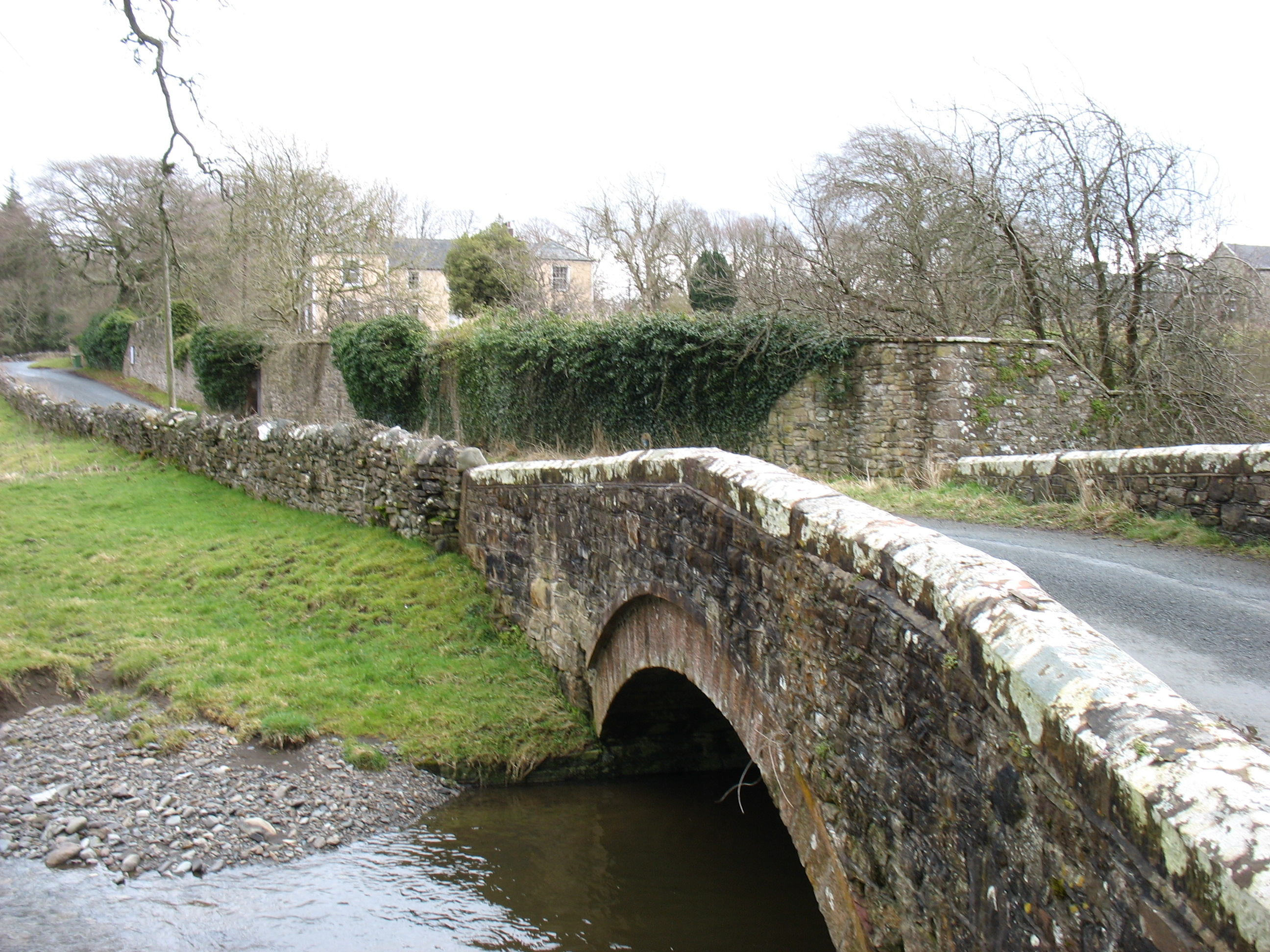 The Grange, and the bridge over Blumer Beck